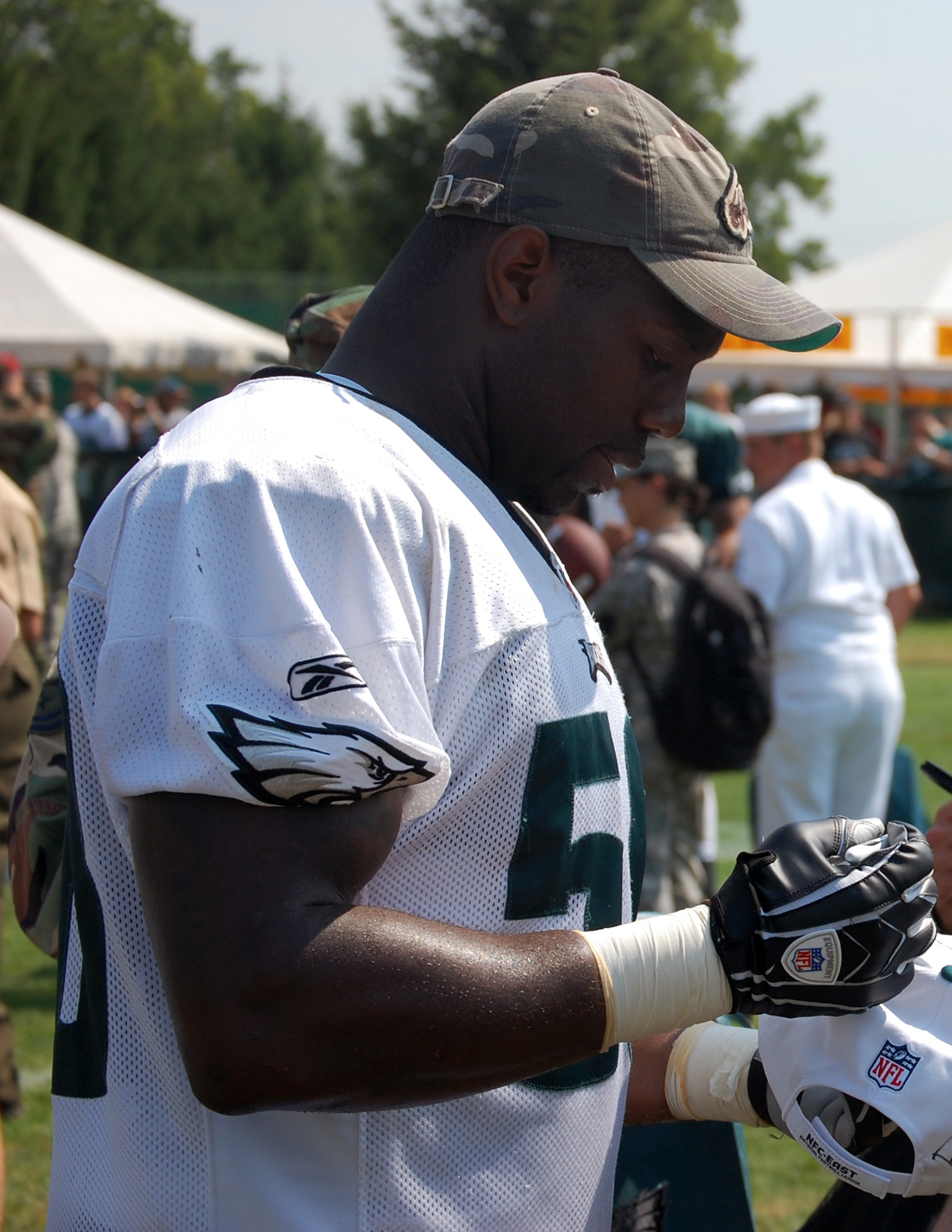 Trent Cole, left, a defensive end with the Philadelphia Eagles professional football team, signs an autograph for Tech. Sgt. Chris Sherman of the U.S. Air Force Expeditionary Center, Fort Dix, N.J., during Military Day at the Eagles training camp at Lehigh University in Lehigh, Penn., Aug. 5, 2008. More than 200 military members from all the services, including more than 50 Airmen from McGuire Air Force Base and Fort Dix, both located in New Jersey, attended the event where they were served breakfast and met Eagles staff members and players.